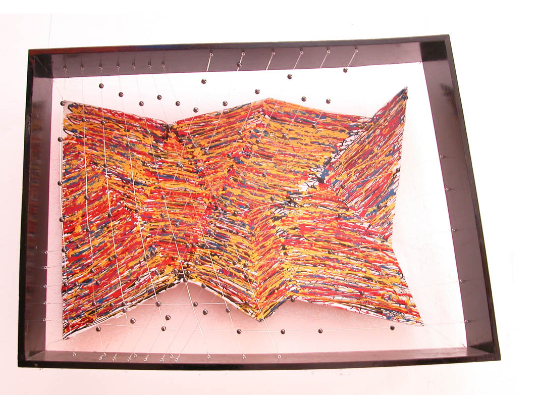 Portrait of the Burletta movement of Bartok's 6th String Quartet, by artist Joel Epstein, from the exhibit "Portraits of Music" (2002, Tel Aviv)